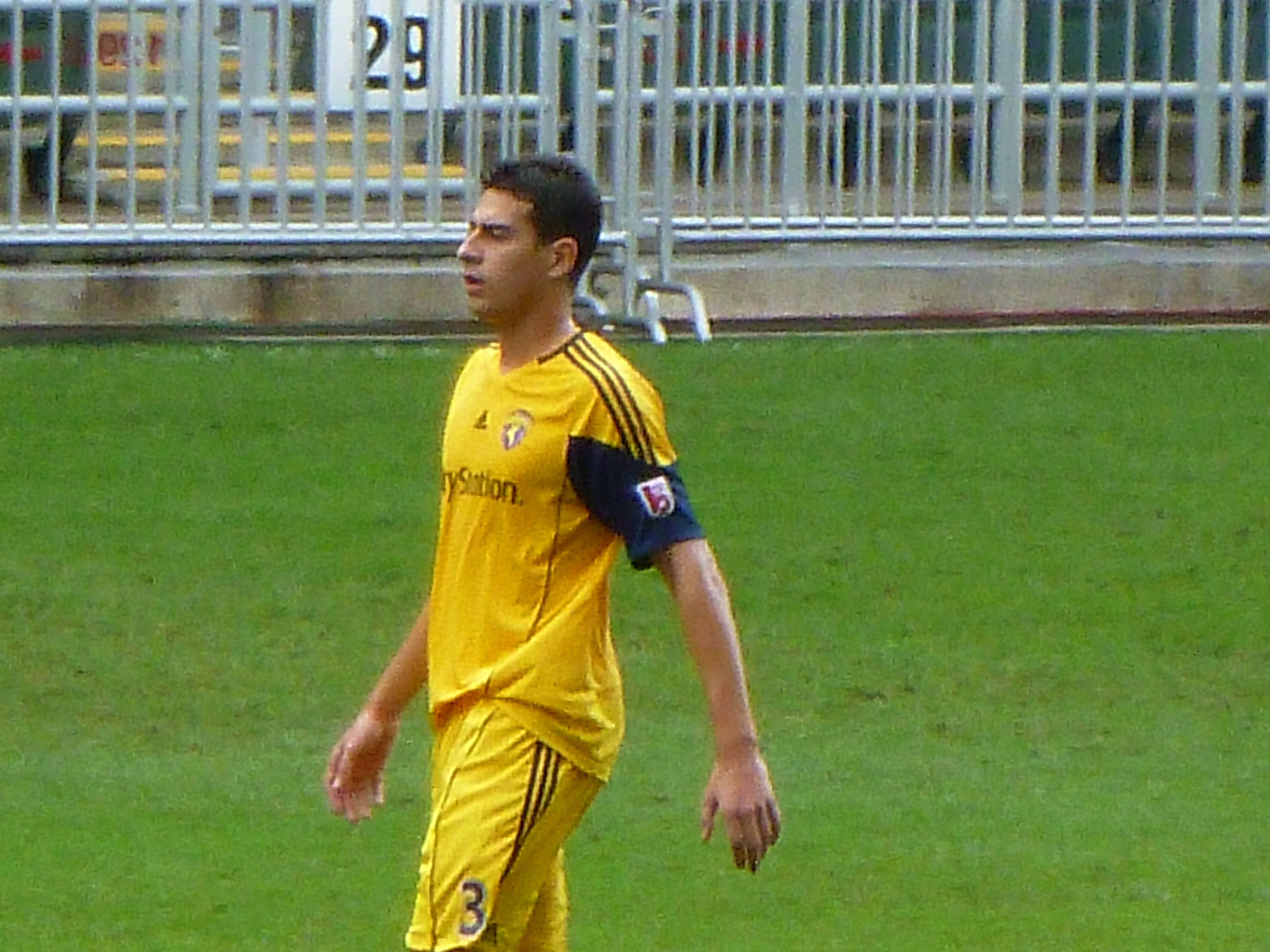 Lucas De Lima Tagliapietra (26 May 2012 Hong Kong FA Cup final, Kitchee vs TSW Pegasus, Hong Kong Stadium)